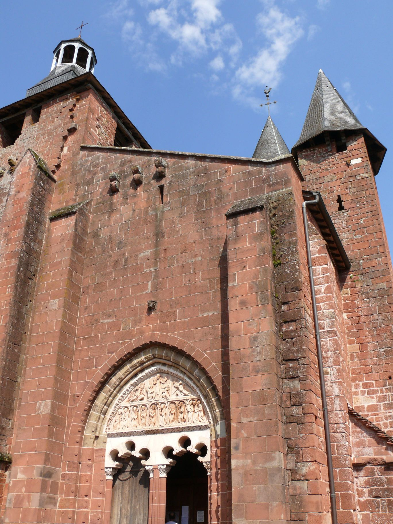 Saint-Peter's church of Collonges-la-Rouge (Corrèze, Limousin, France).